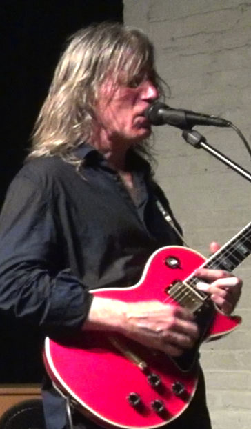 Nick Didkovsky playing at The Stone in NYC